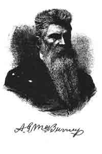 Andrew McBurney politician from Ohio, United States.